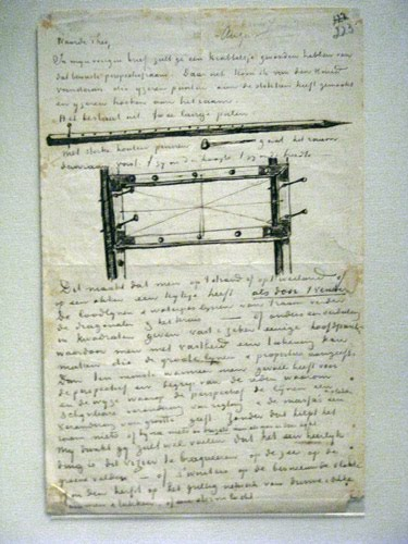 A sketch by Vincent van Gogh which represents his perspective frameRomână: O schiță realizată de Vincent van Gogh care reprezintă cadrul lui de perspectivă